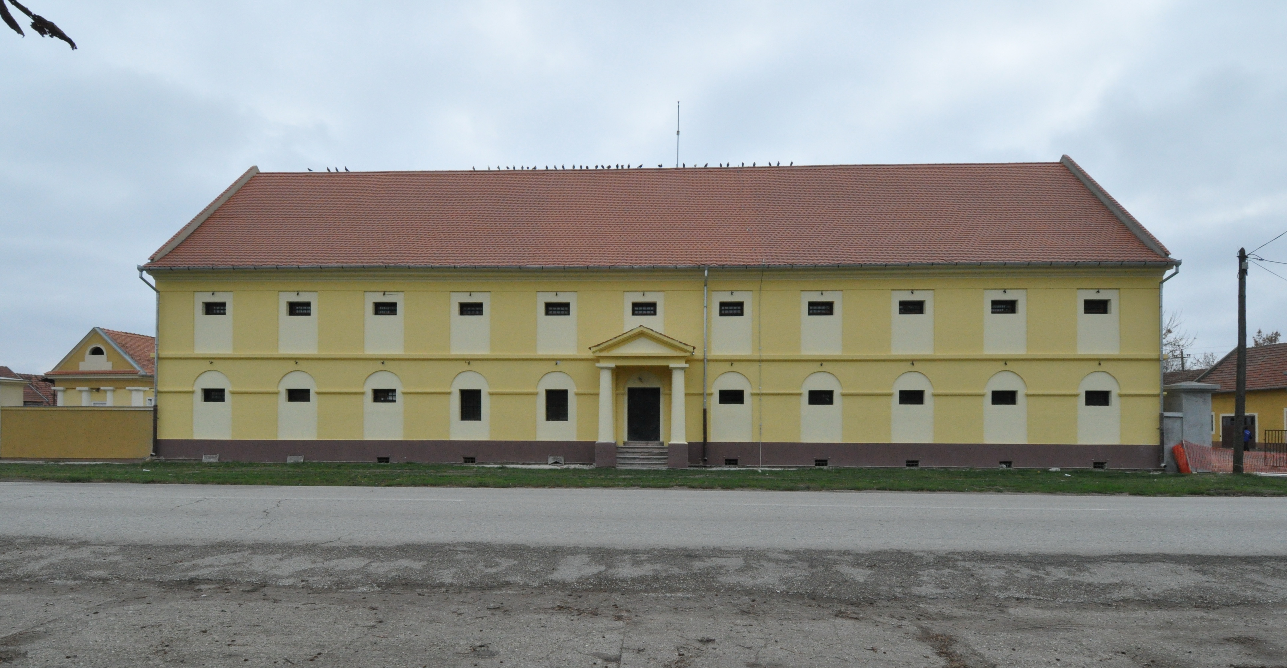 Grain warehouse in Novo Miloševo - street facade